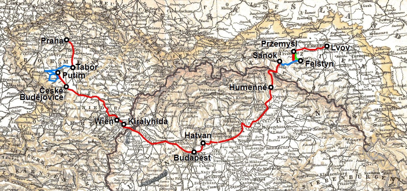 Švejk's trail. Red: by train, blue:by foot, green: prisoner